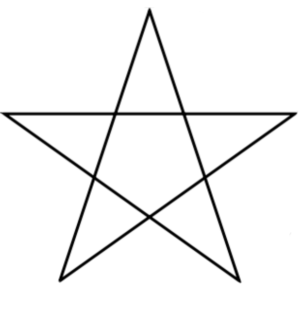 author:user:PedroPVZ